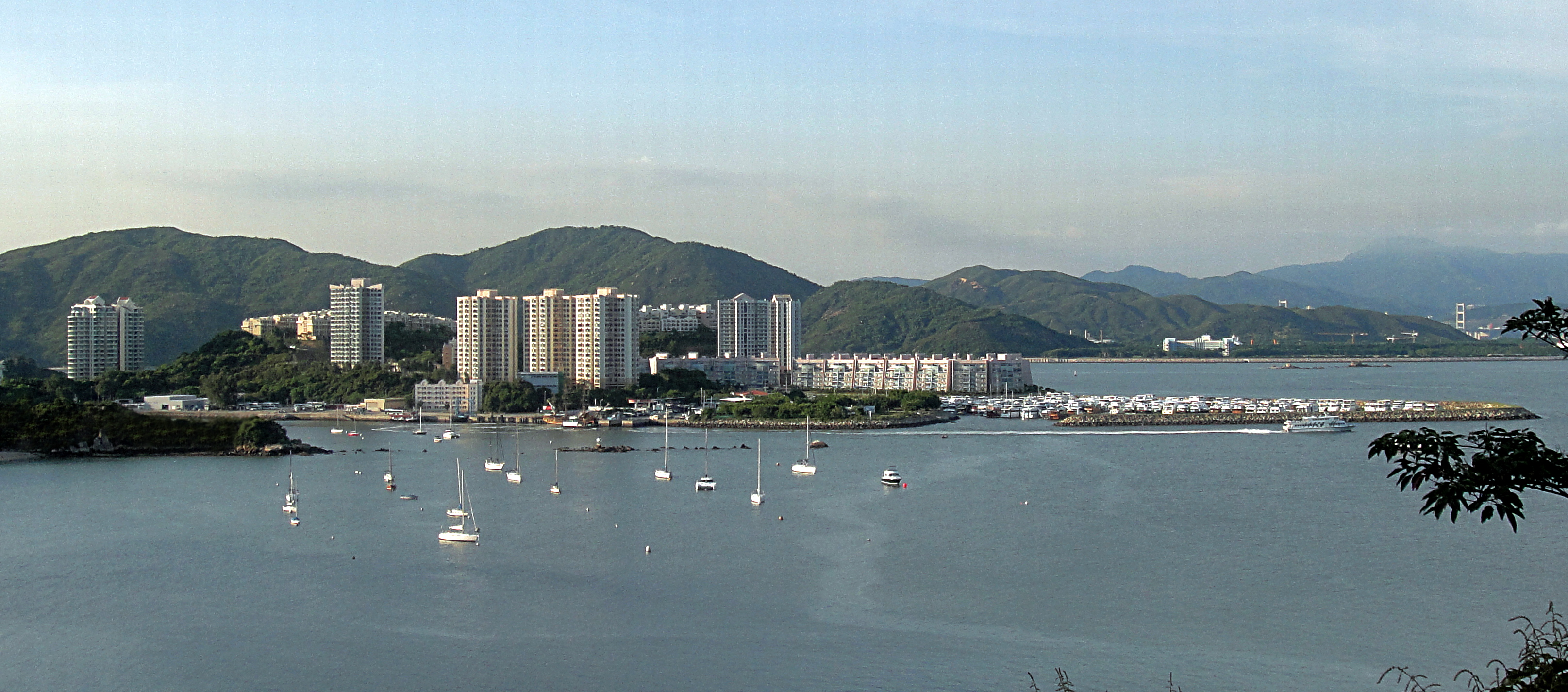 Discovery Bay Marina Drive, Marina Club and Floating Jetties area view. Viewed from across Nim Shue Wan